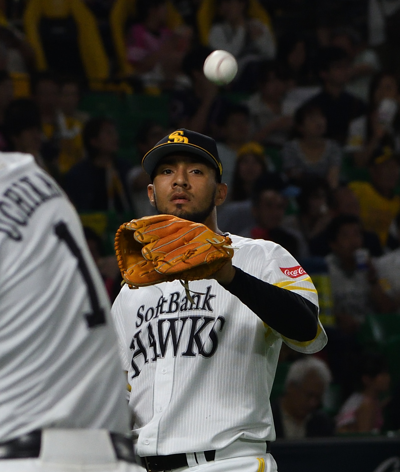 Robert Suarez, pitcher of the Fukuoka SoftBank Hawks, at Fukuoka Dome.